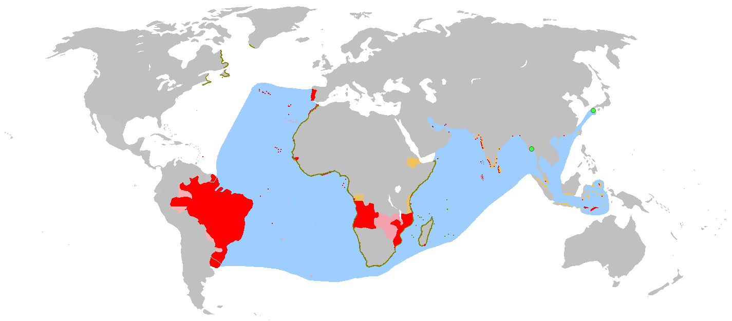 An anachronous map of the Portuguese Empire (1415-1999). Red - actual possessions Olive green - explorations Orange - areas of influence and trade Pink - claims of sovereignty Light green - trading posts Blue - main sea explorations, routes and areas of influence.